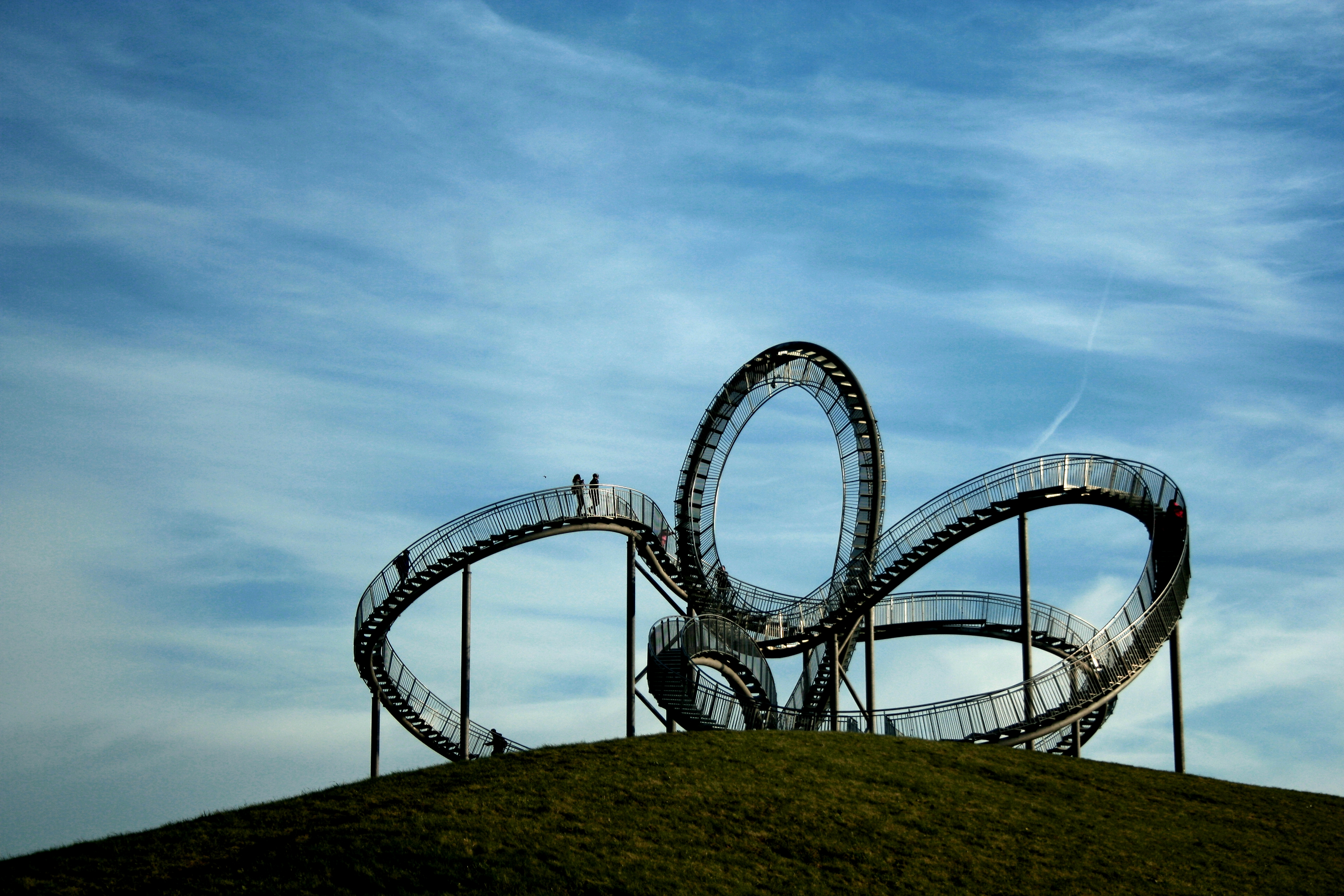 Tiger and Turtle Magic Mountain in Duisburg